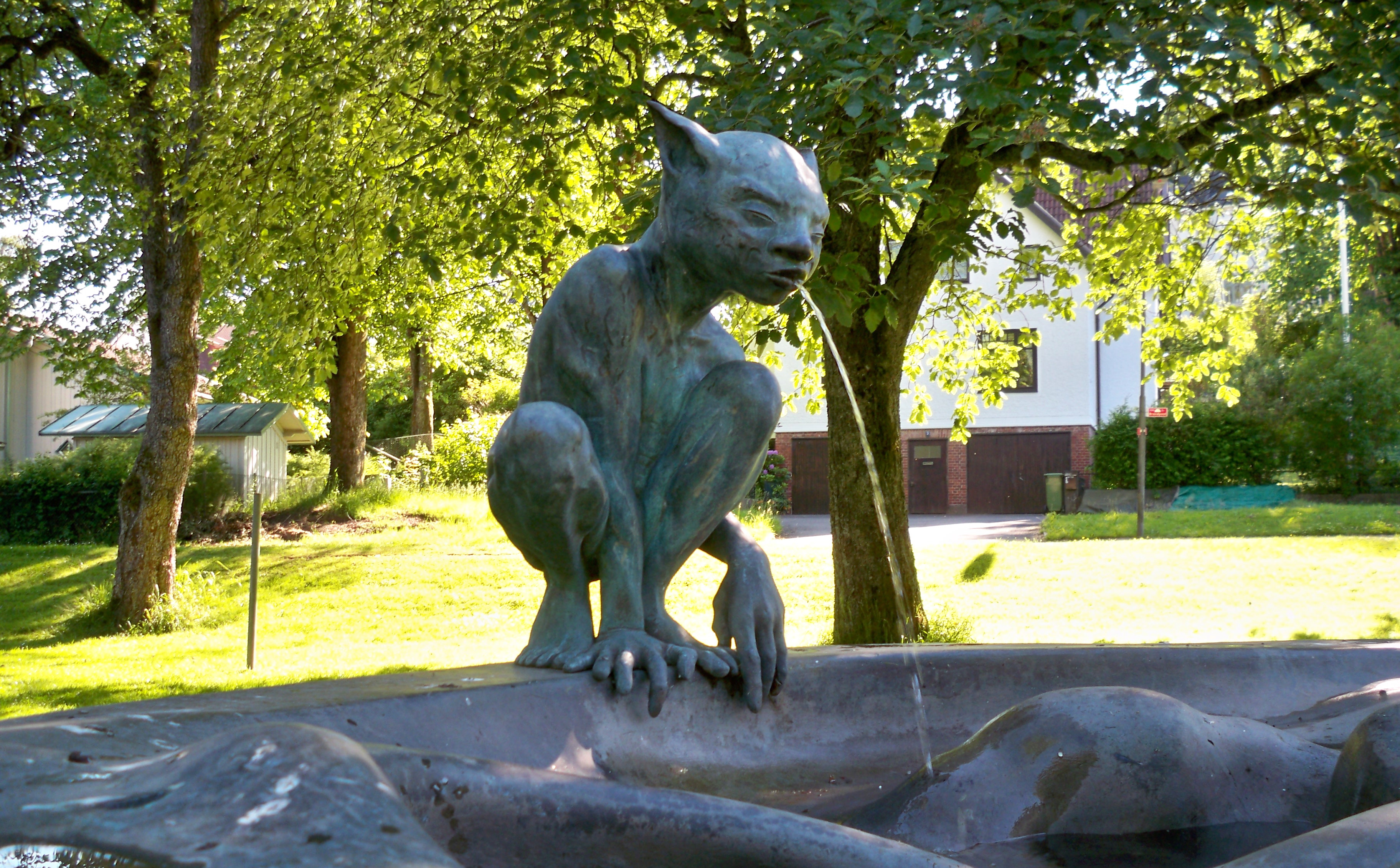 Viskarn (The Whisperer) is a fountain sculpture by the Swedish sculptor Christian Partos. It was inaugurated in 1999 in Almåsparken, a public park in the city of Borås, Sweden.